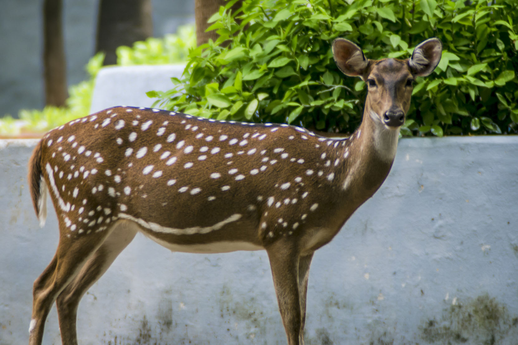 Freely wandering deer at Children's park/Guindy National Park, Chennai.